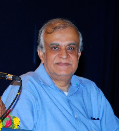 Rajiv Malhotra is Indian-American author, philanthropist, public speaker and writer on current affairs, world religions and cross-cultural encounters between east and west.